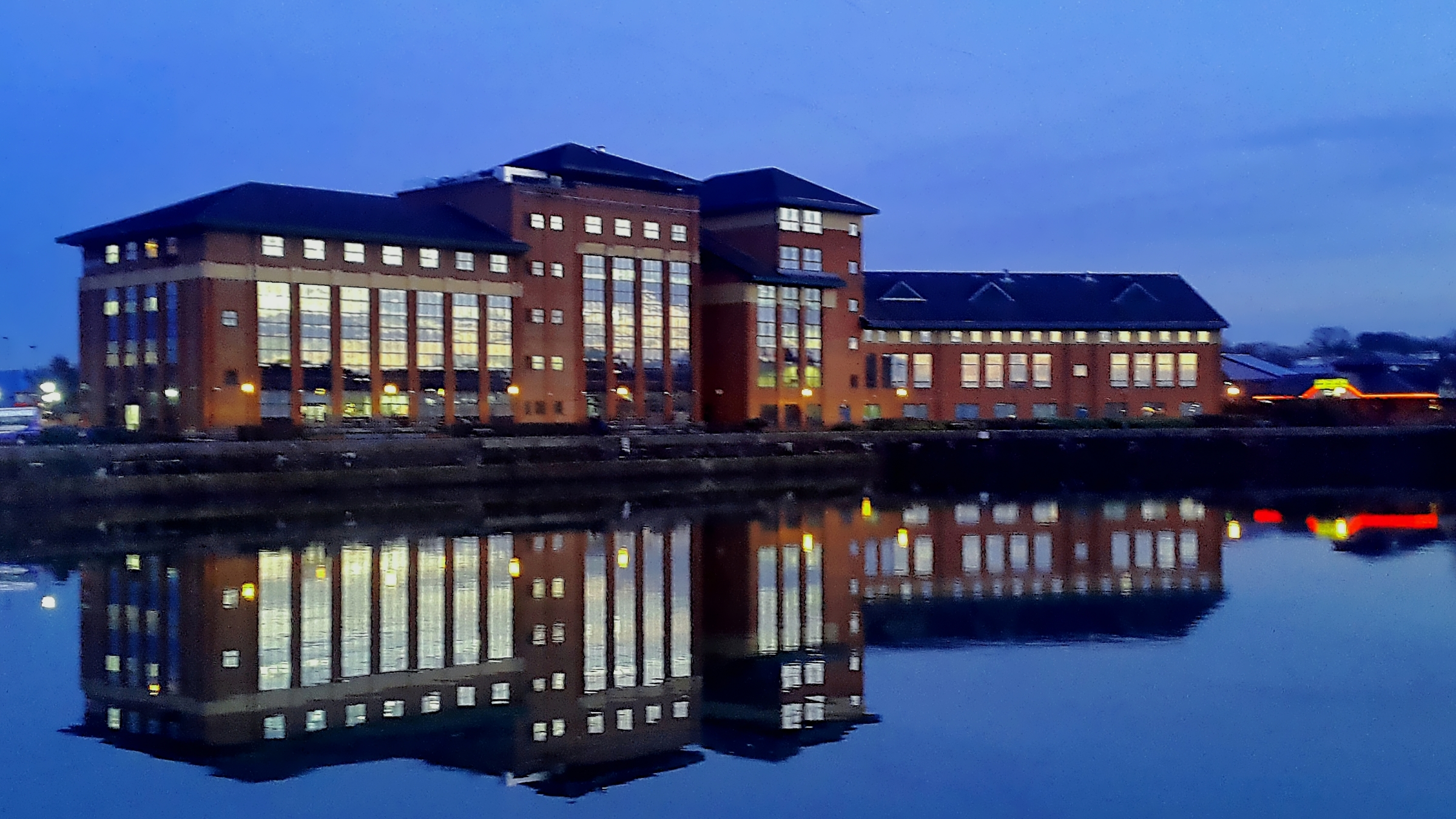 Harbour House, on the eastern end of the Albert Edward Basin in Preston (Lancs UK) at night.